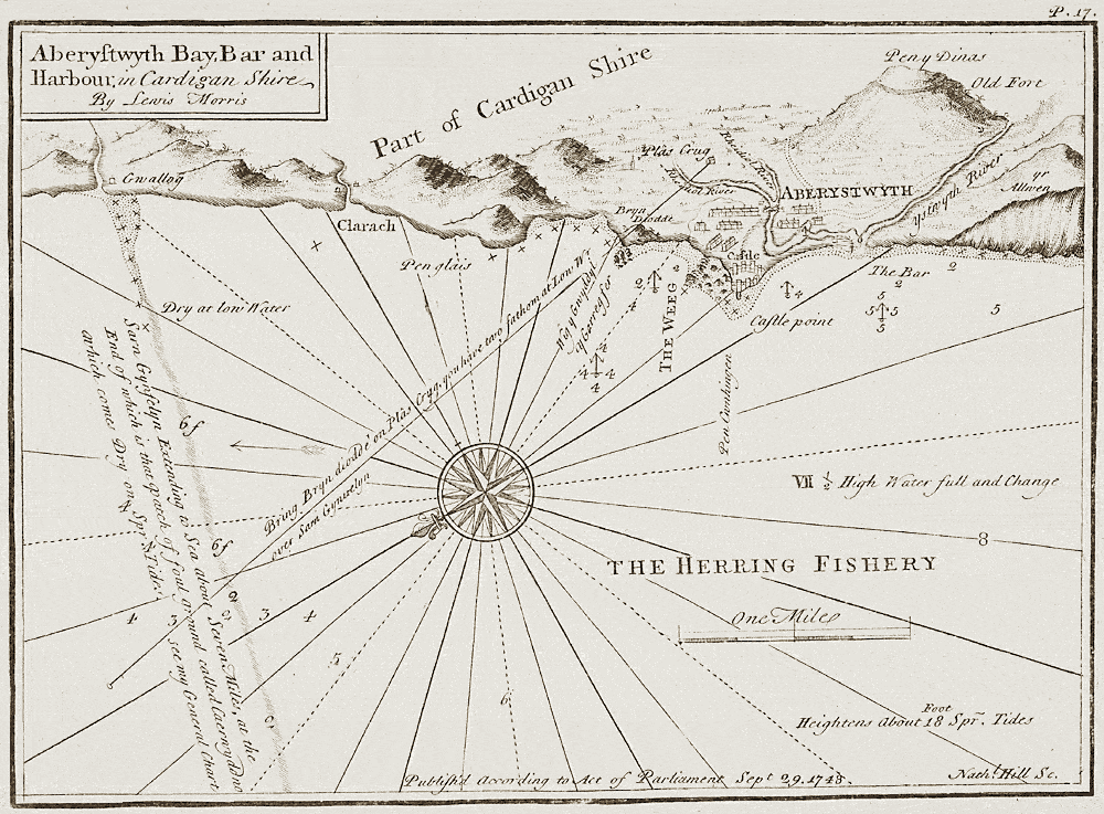 Lewis Morris' coastal charts of Wales. In 1748 Admiralty encouraged the publication of Morris private survey of the Welsh coast and individual harbour plans. They were published privately that September.